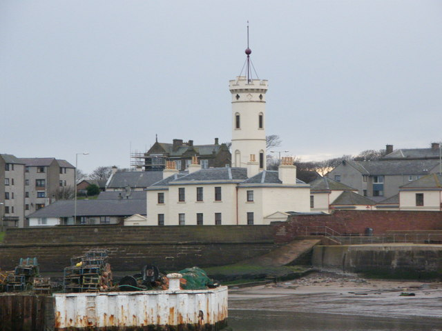 Signal Tower Museum Taken from the harbour